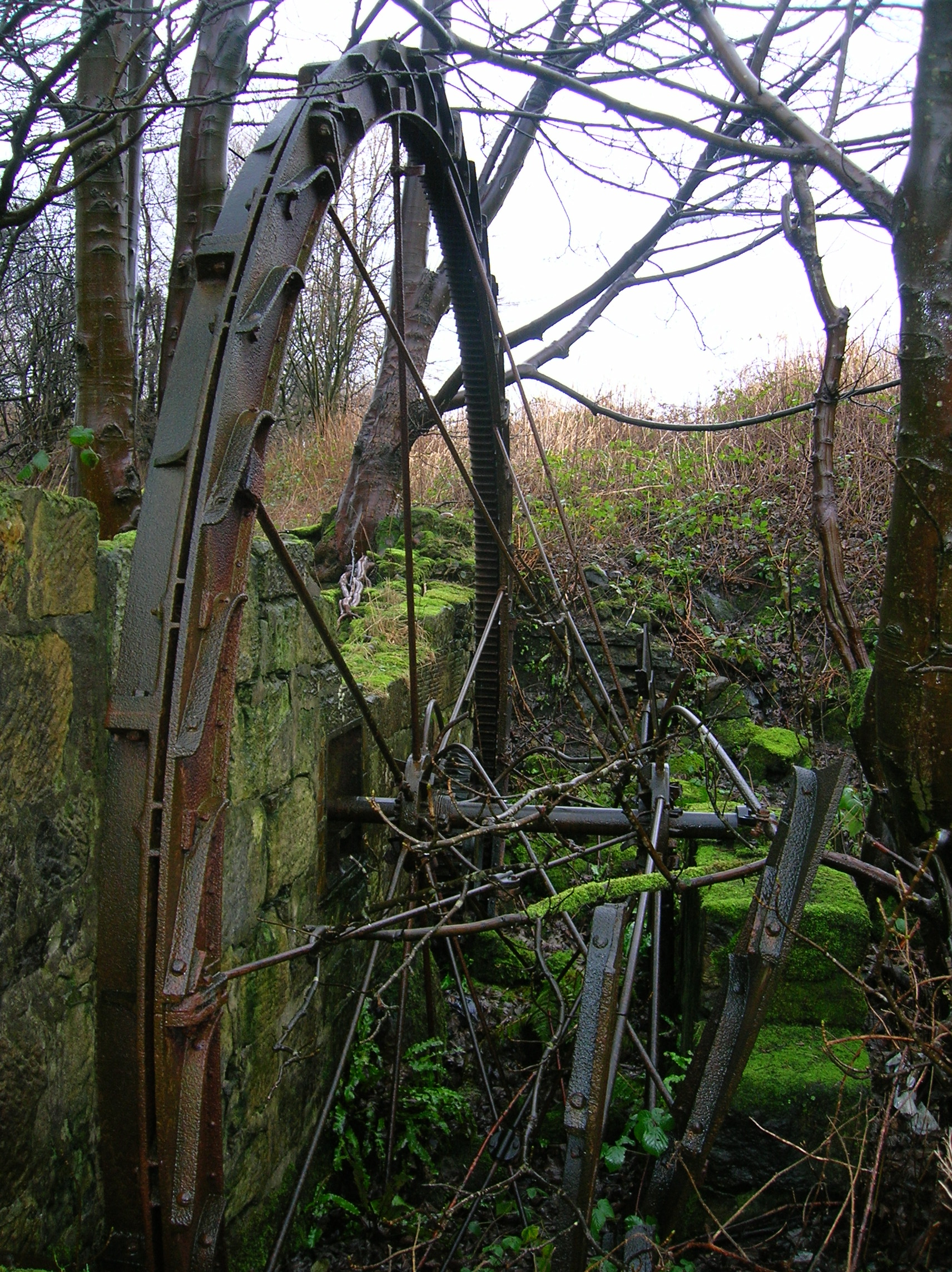 Nethermill waterwheel, Kilbirnie, North Ayrshire, Scotland